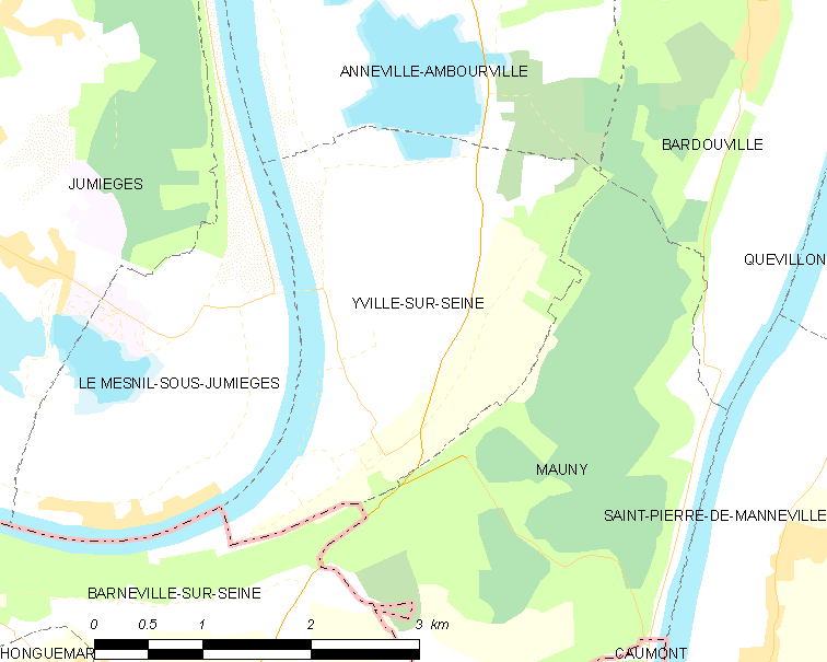 Map of French municipality Yville-sur-Seine